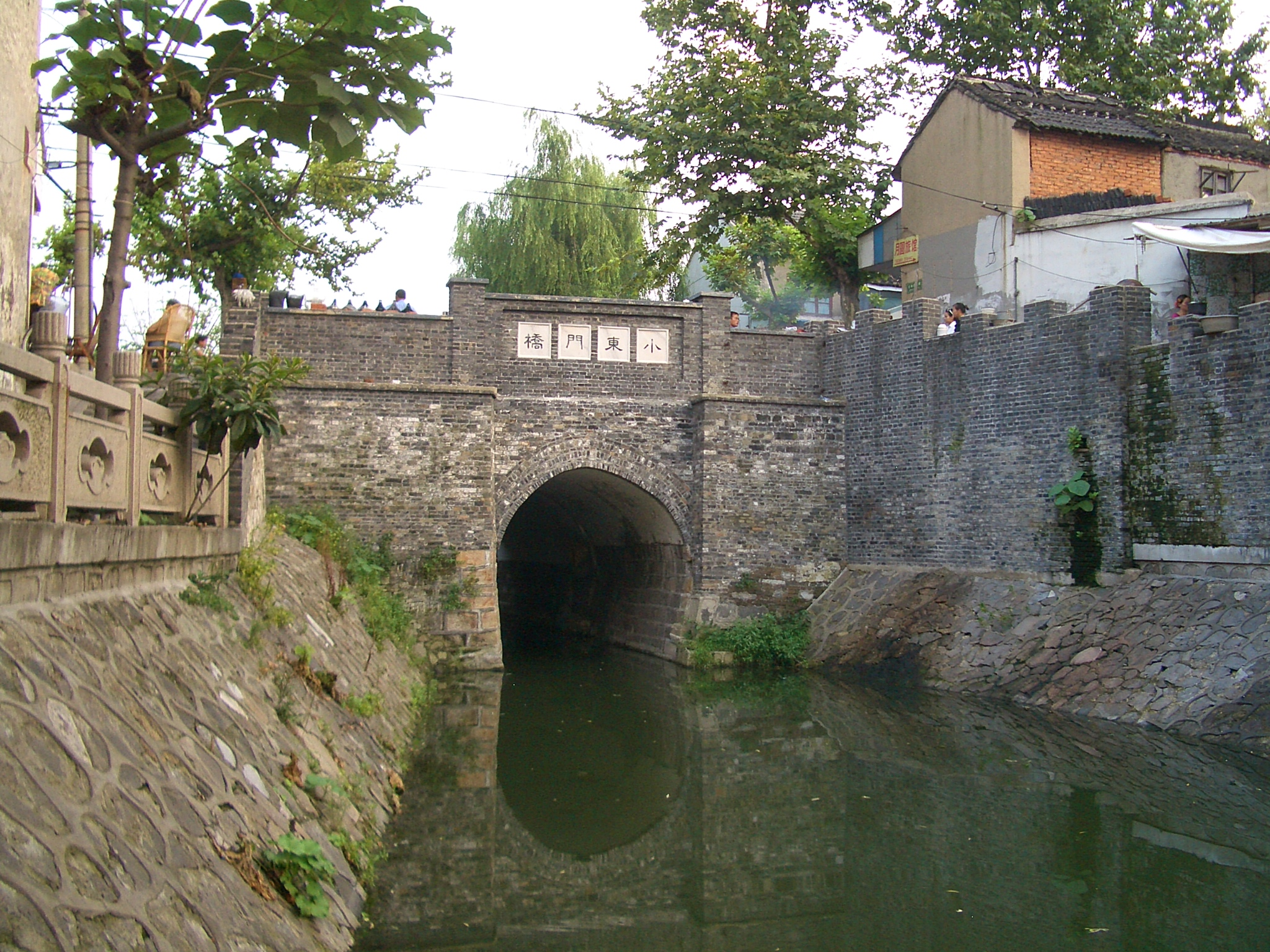 Xiaodongmen Bridge (The Lesser Eastern Gate Bridge) over the Xiaoqinhuaihe Canal in Yangzhou.